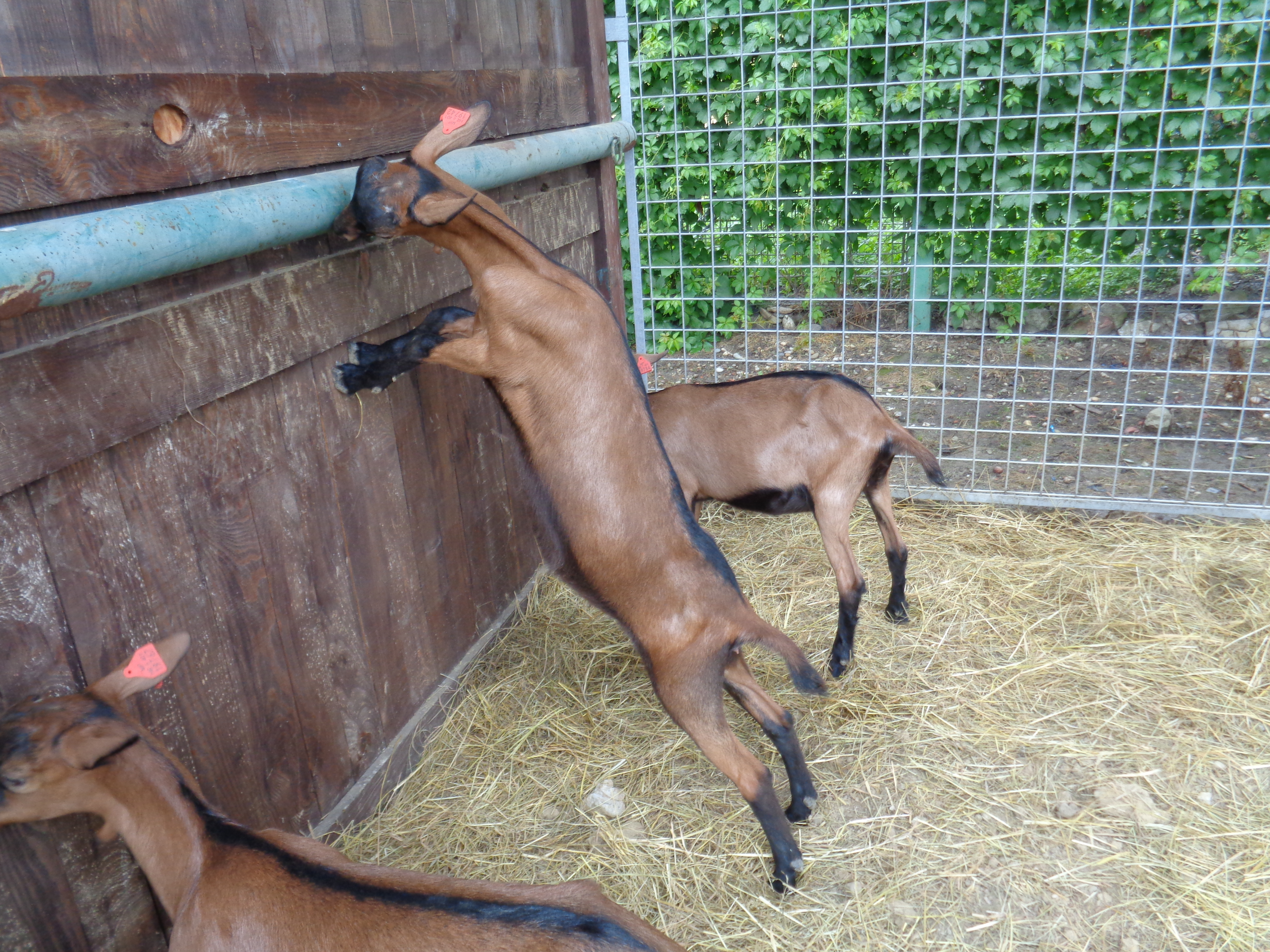 Oberhasli goats, exhibited at 2016 MESAP Trade Fair in Nedelišće, Medjimurje County, northern Croatia